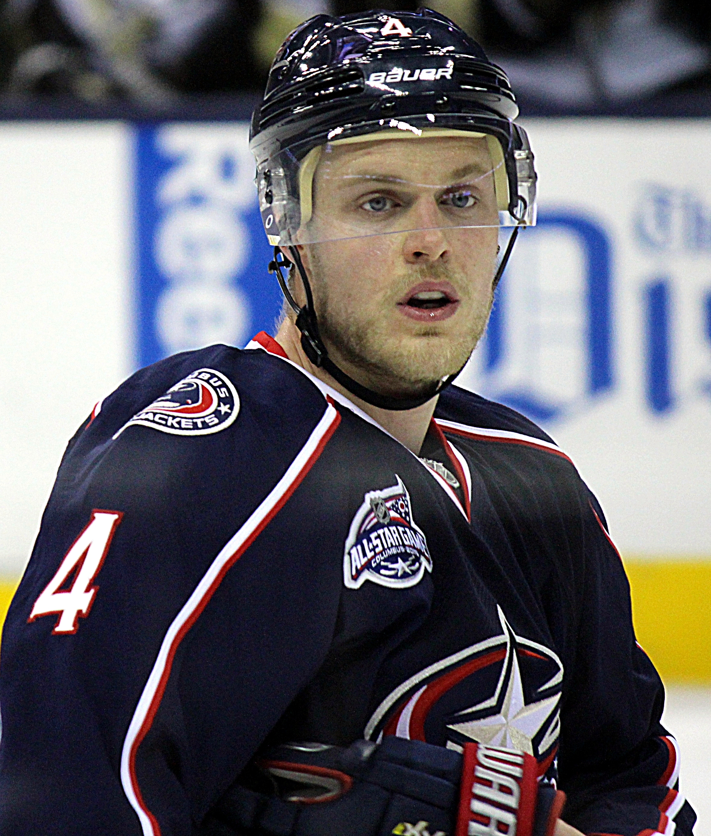 Columbus Blue Jackets defenseman Kevin Connauton during a game against the Pittsburgh Penguins, December 13, 2014, at Nationwide Arena in Columbus, OH.